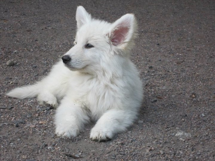 Pitkakarvainen valkoinenpaimenkoira